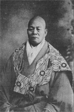 Nakahara Tōshū (Nakahara Nantenbo)